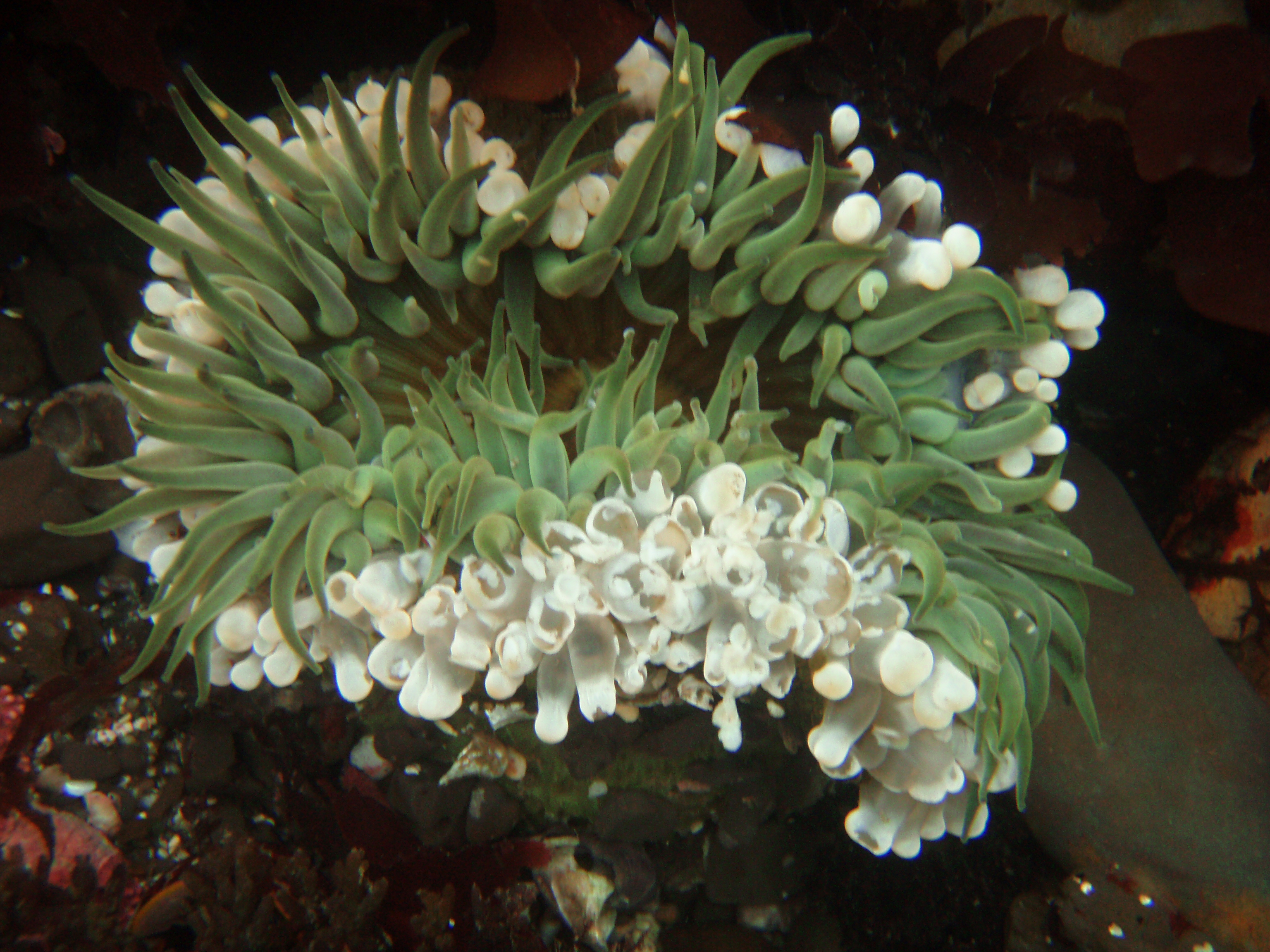 Sea Anemone ,Anthopleura sola . The white tentacles are fighting tentacles. Sea Anemones look as plants, but they are animals and they are predators.